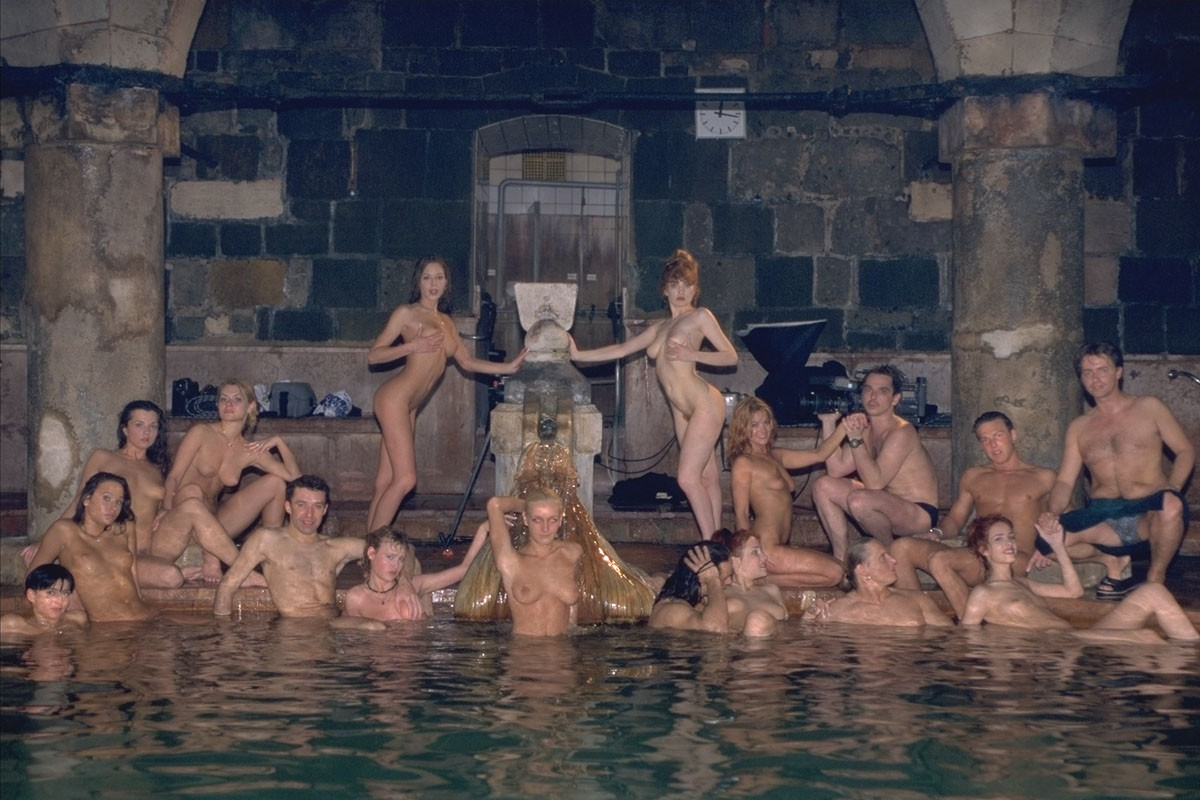 Filming of the movie "Concupiscence" by John B. Root.